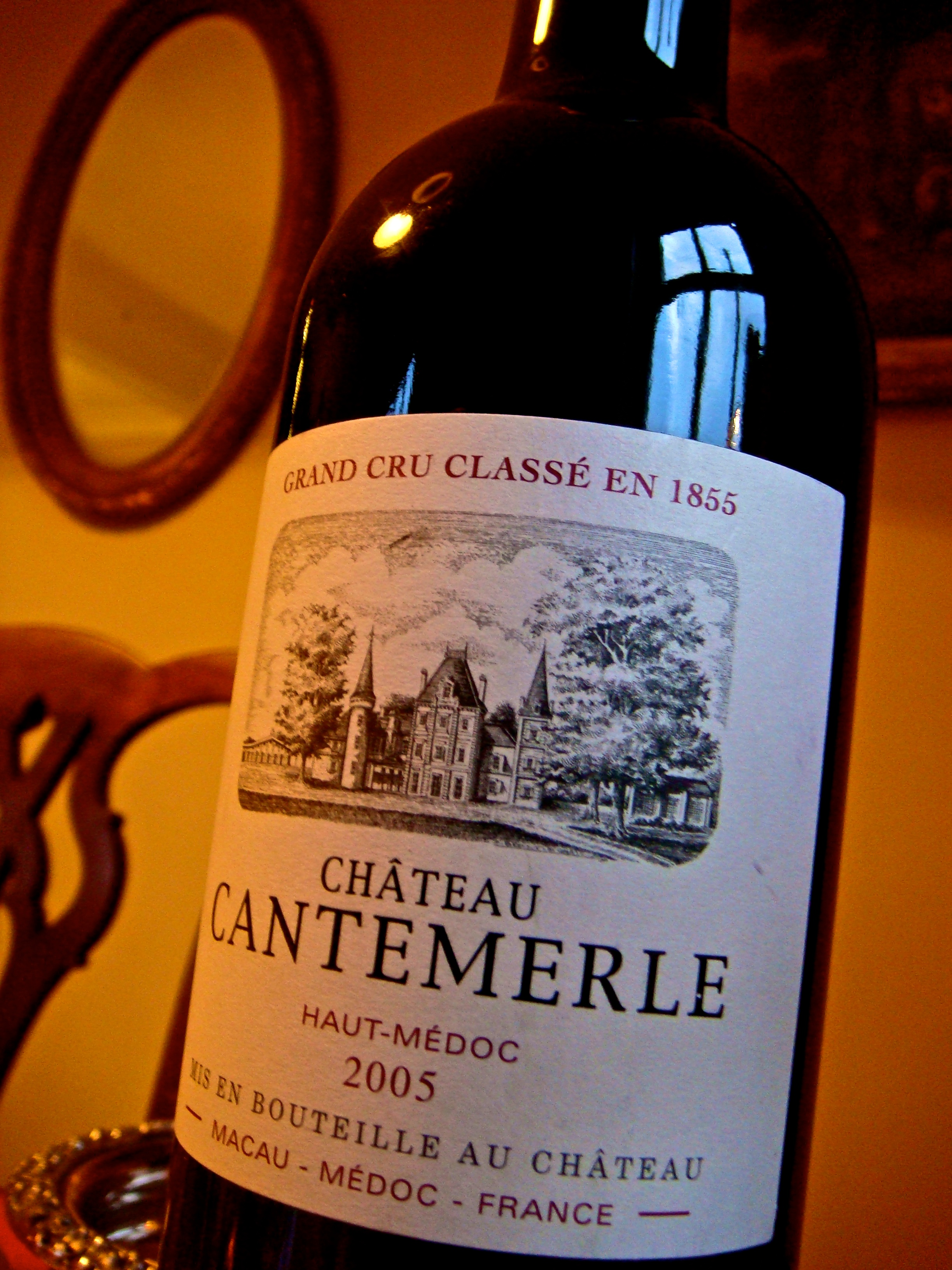 French wine from Bordeaux